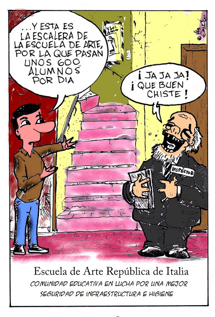 school of arts